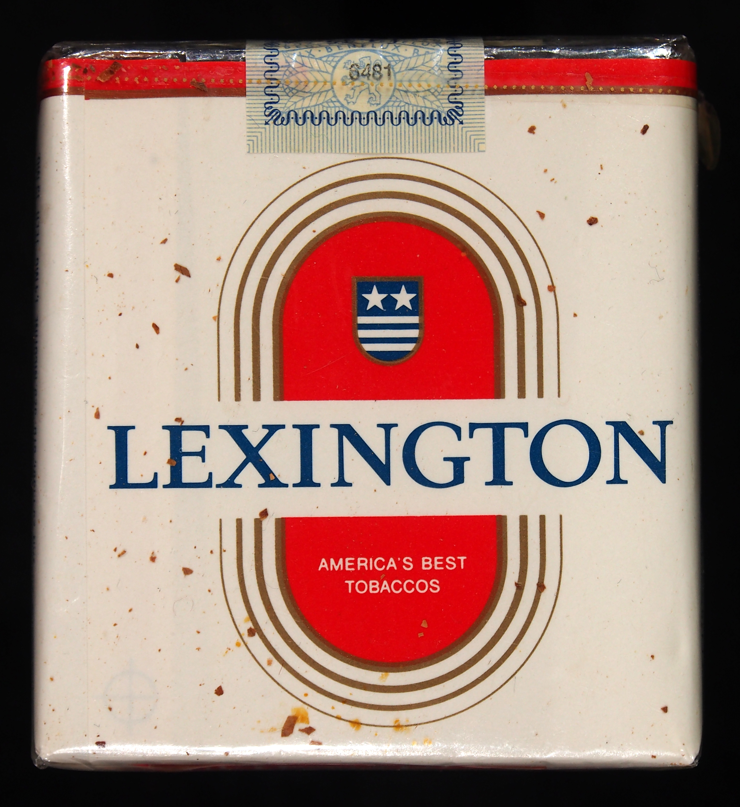 Very old packaging of a product that is not produced and not sold any more.